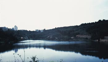 An image from the English Wikipedia. The copyright holder of the original work released it into the public domain. Ayazağa campus of :en:Istanbul Technical University .